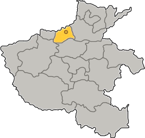 The prefecture-level city of Jiaozuo is highlighted on this map of Henan province, People's Republic of China.